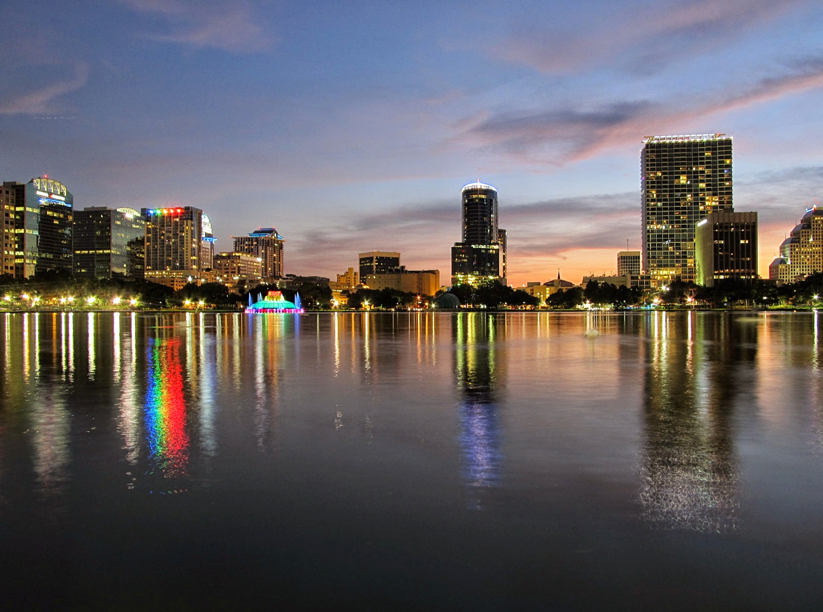 Lake Eola Park in Downtown Orlando, Florida